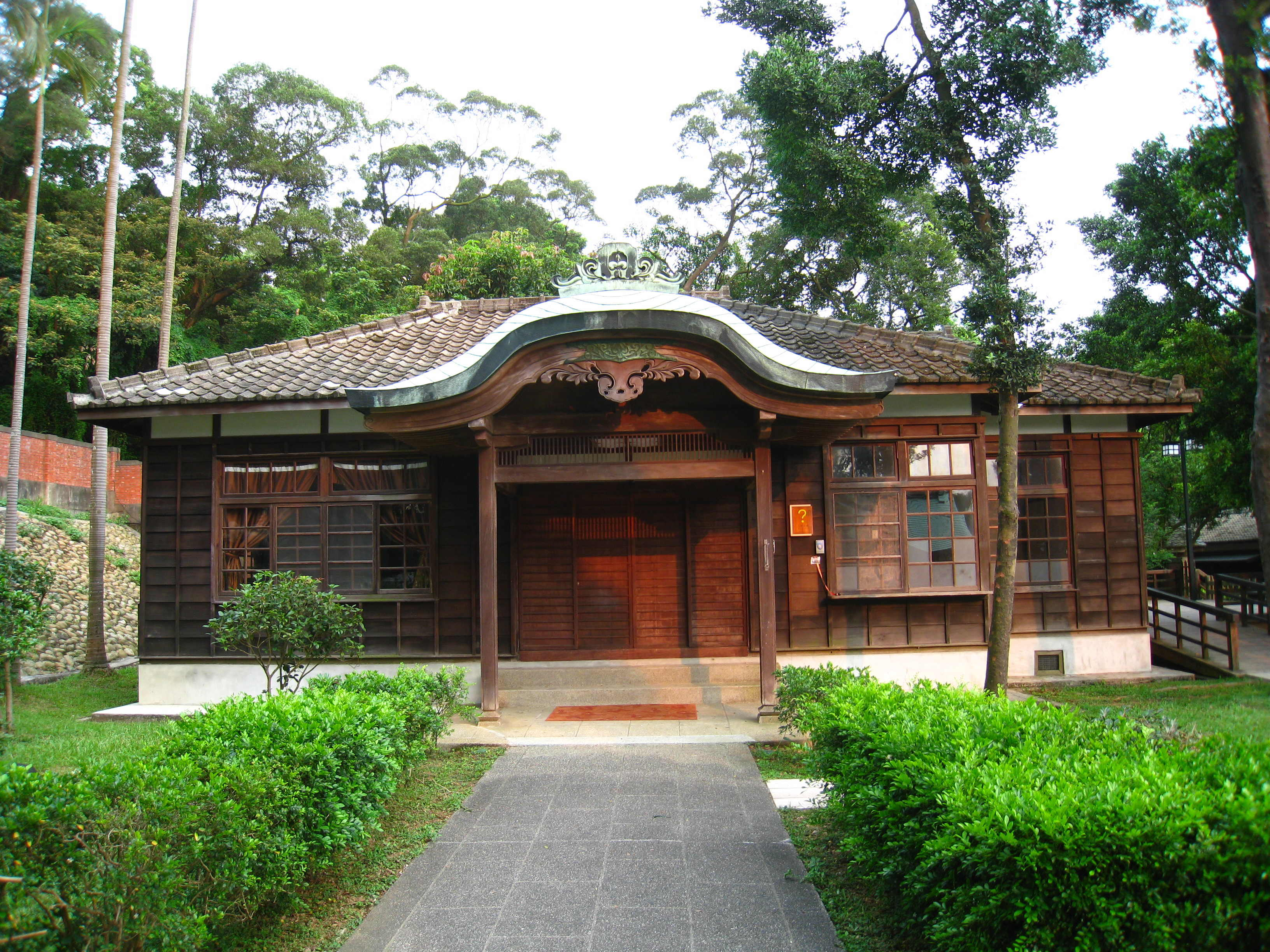 Taoyuan Shinto shrines-2,Taiwan